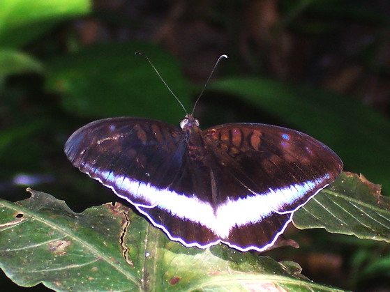 Tanaecia iapis from Bogor, West Java, Indonesia